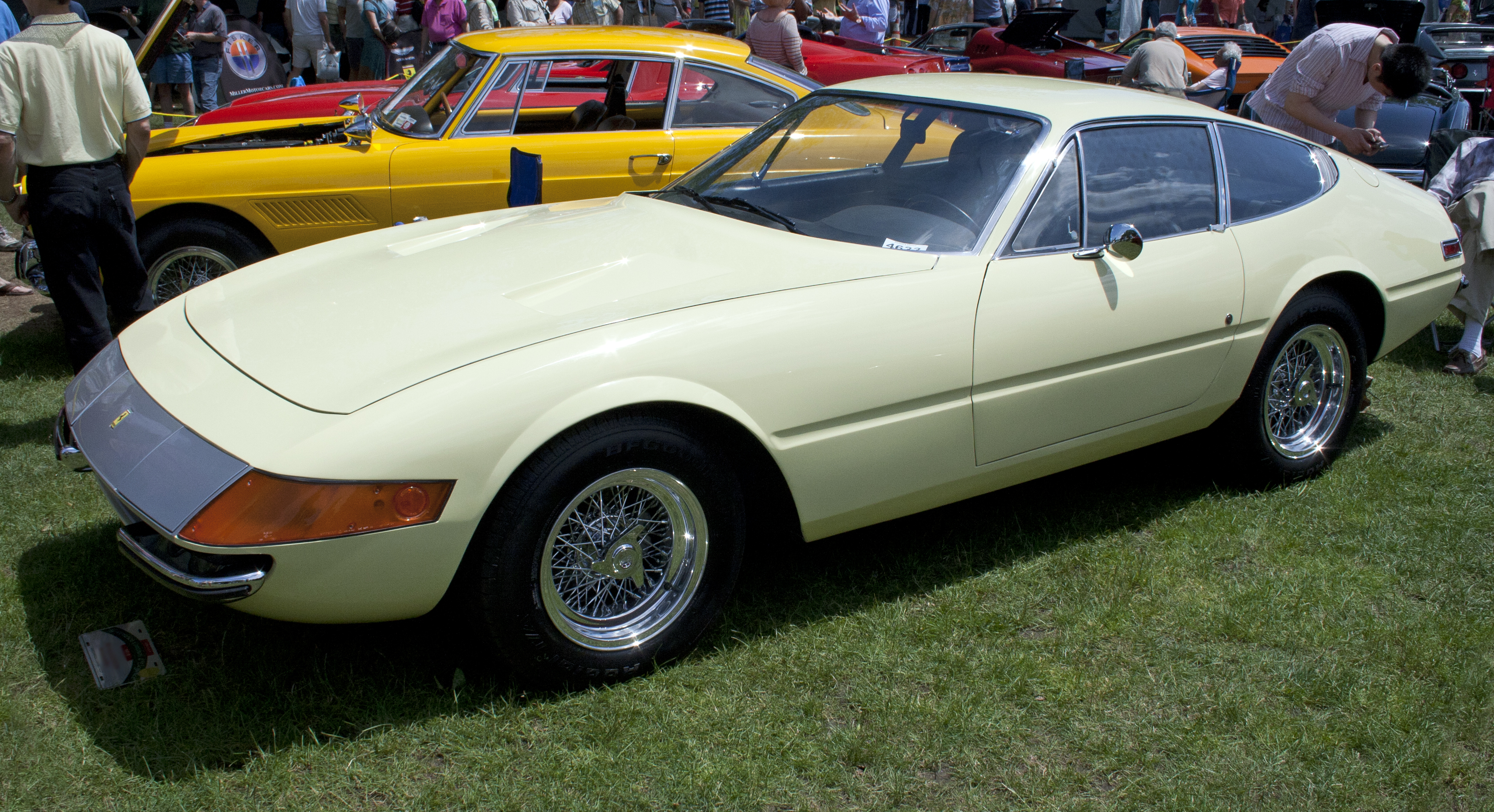 1971 Ferrari 365 GTB/4 Daytona at the 2012 Greenwich Concours d'Elegance. Why beige? Why spoked wheels? We'll never know.